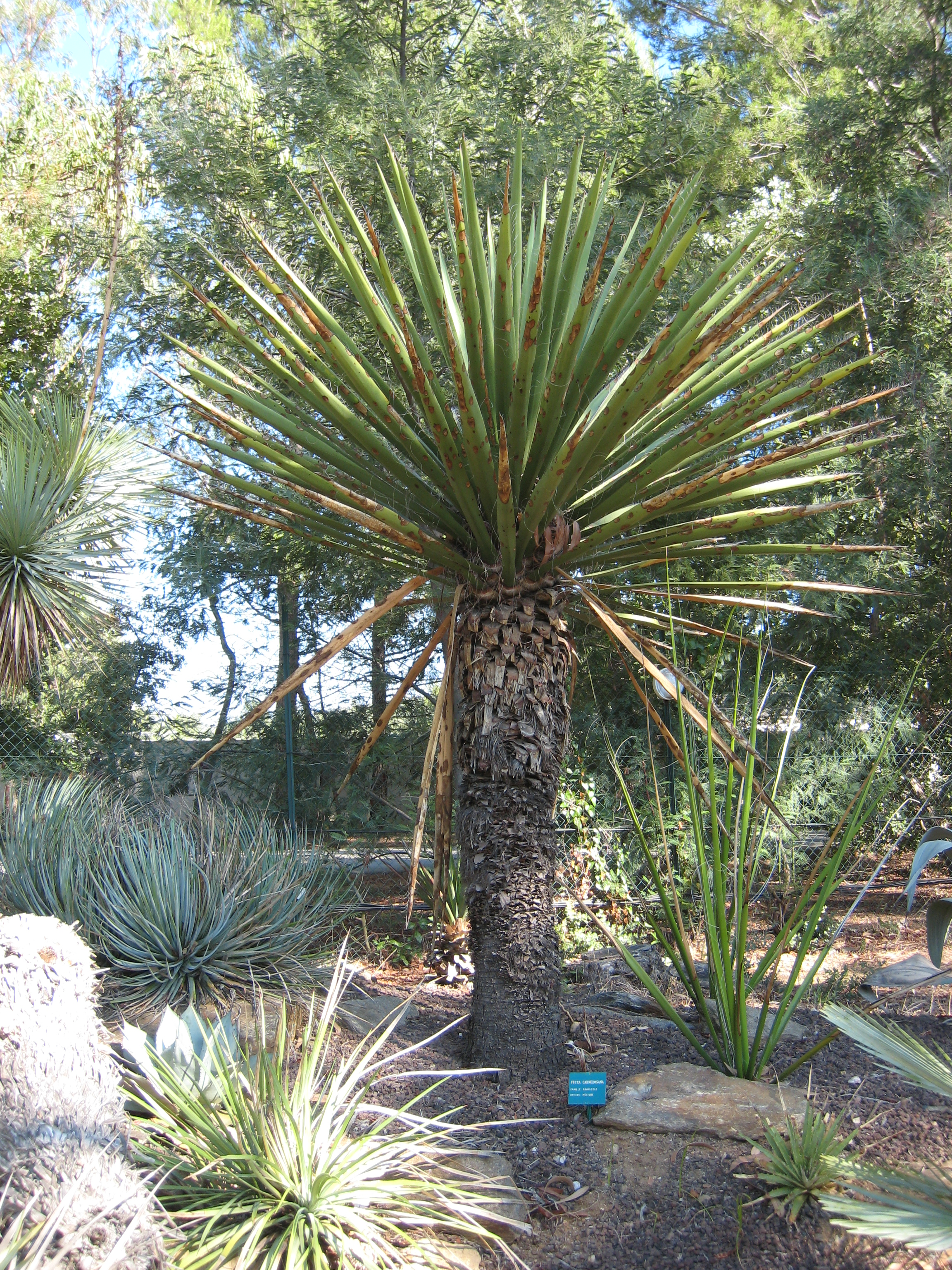 Yucca carnerosana in jardin d'oiseaux tropicaux